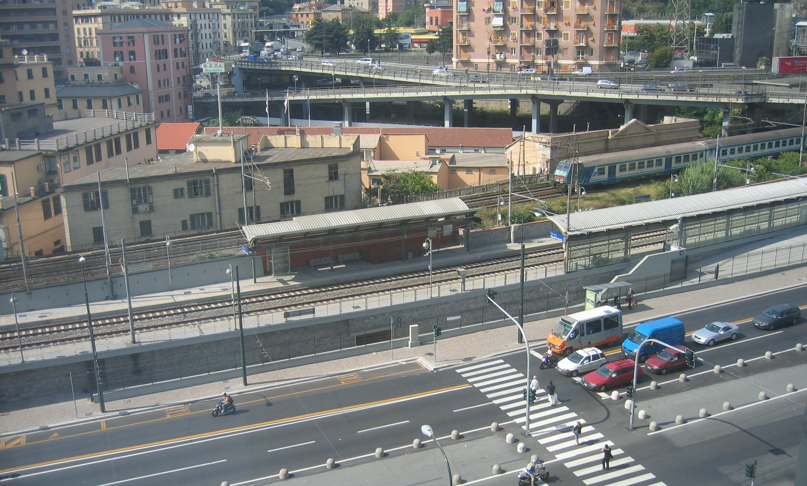 Genova Via di Francia rail station